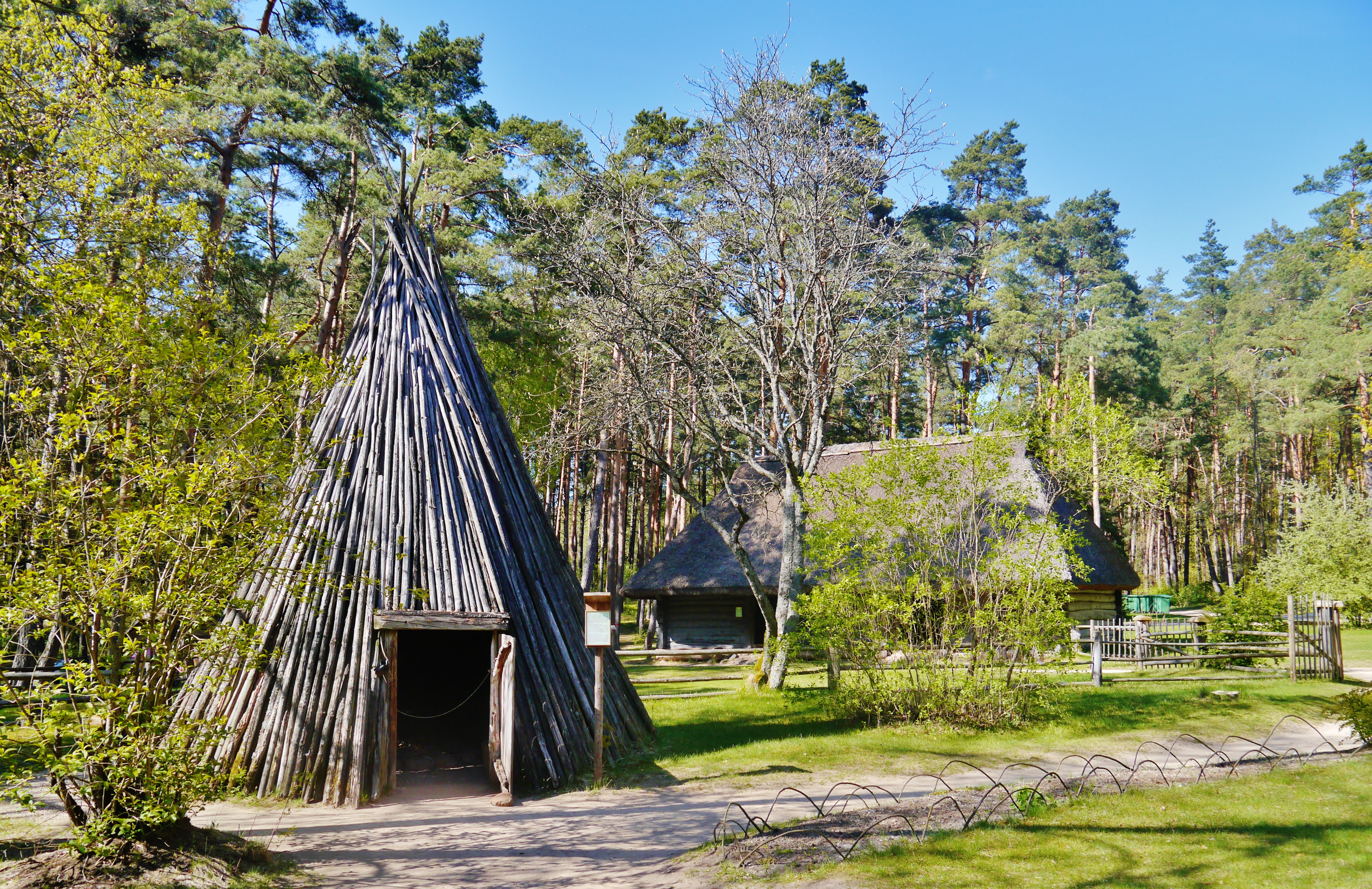 Kitchen of the Region of Vidzeme/Livonia, Ethnographic Museum, Bergi, Latvia